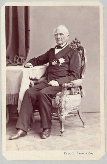 Portrait of Leopold von Frankenberg und Ludwigsdorf (1785-1878), Prussian politician